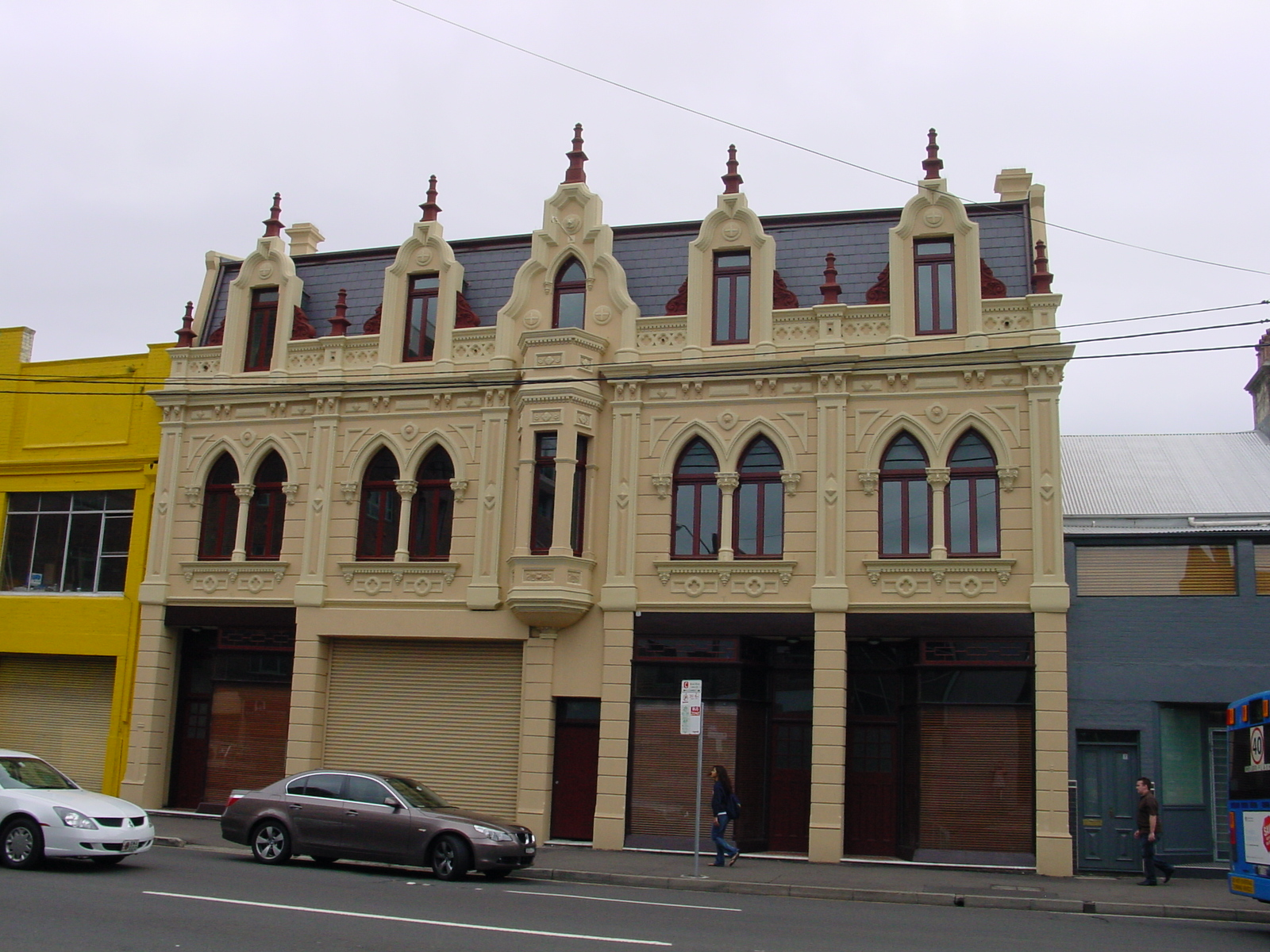 The Flemish-style facade of The Trocadero in King St, after its restoration.